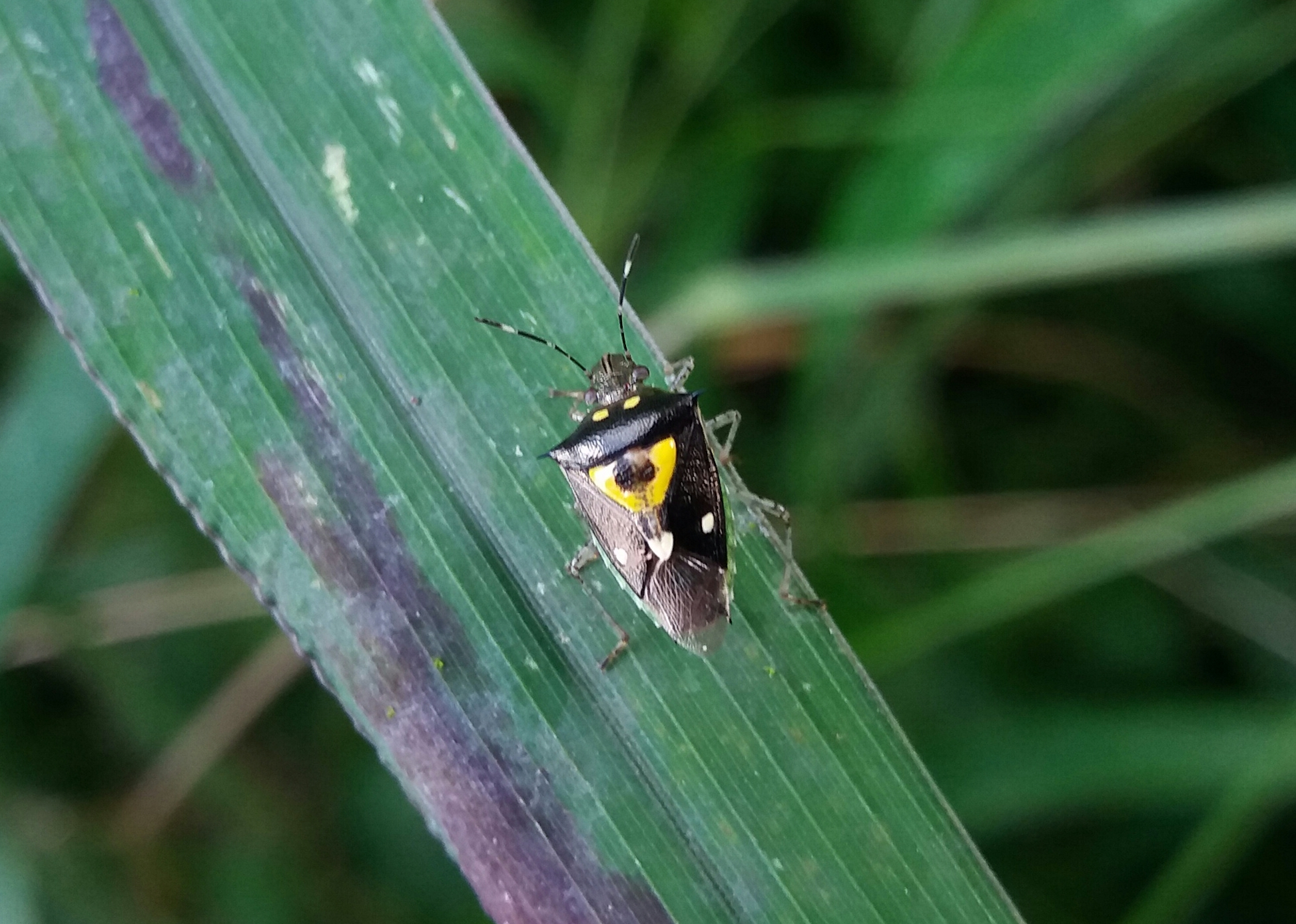 Genus Mormidea